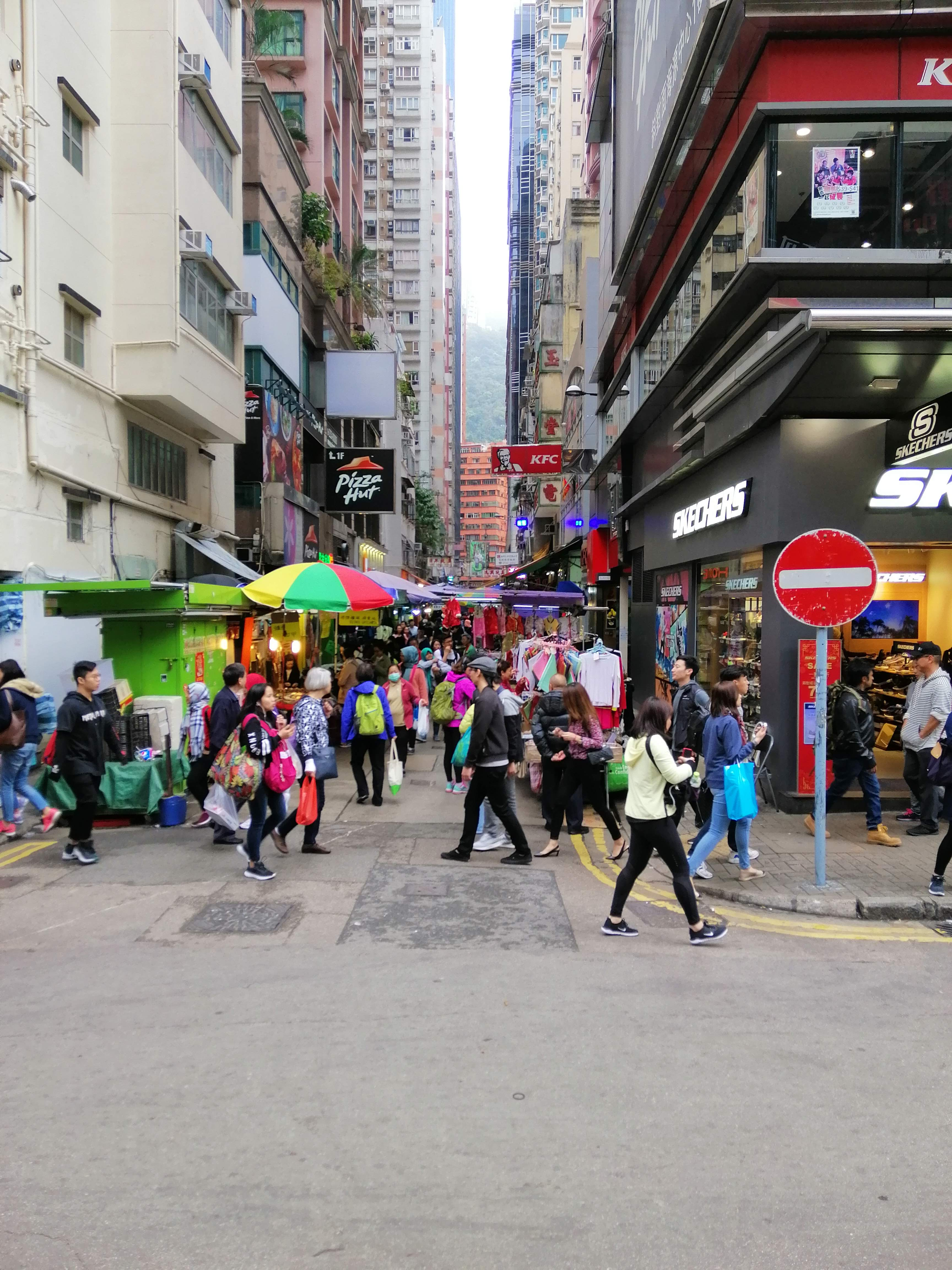 tai yuen street